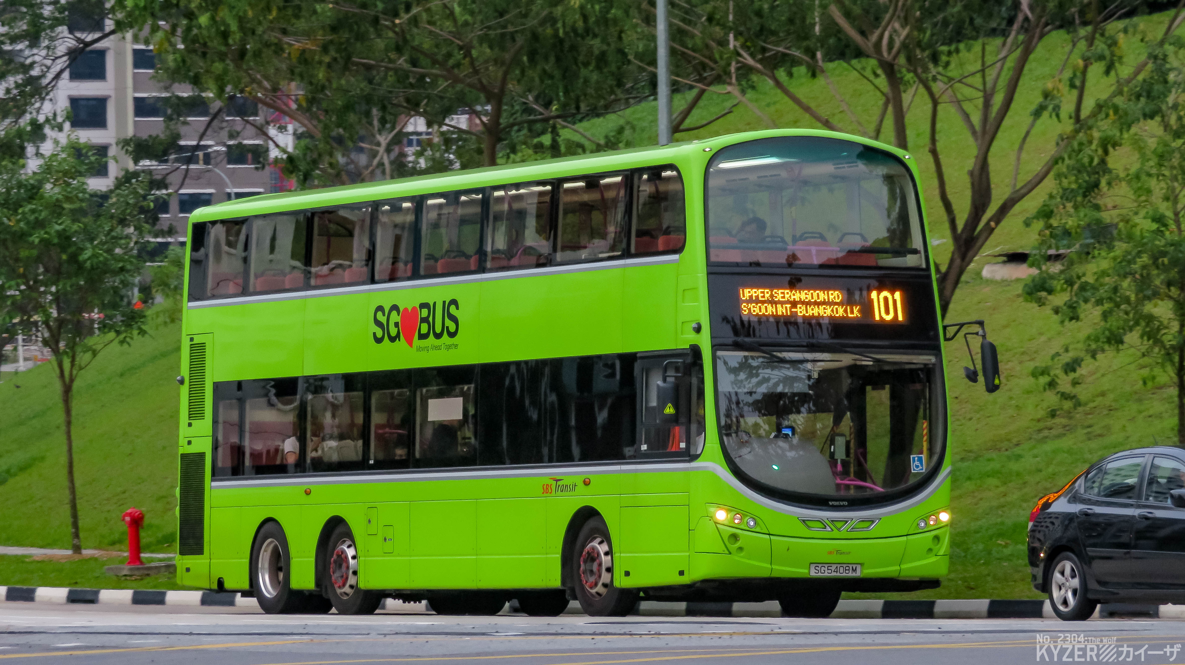 SG5408M - 101